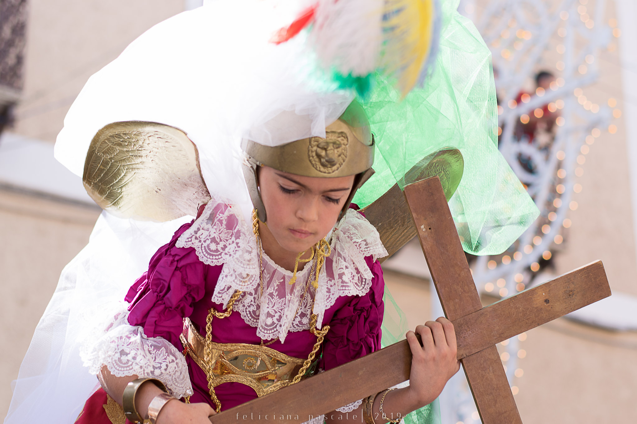 Il Volo dell'Angelo- SS Crocifisso Brienza